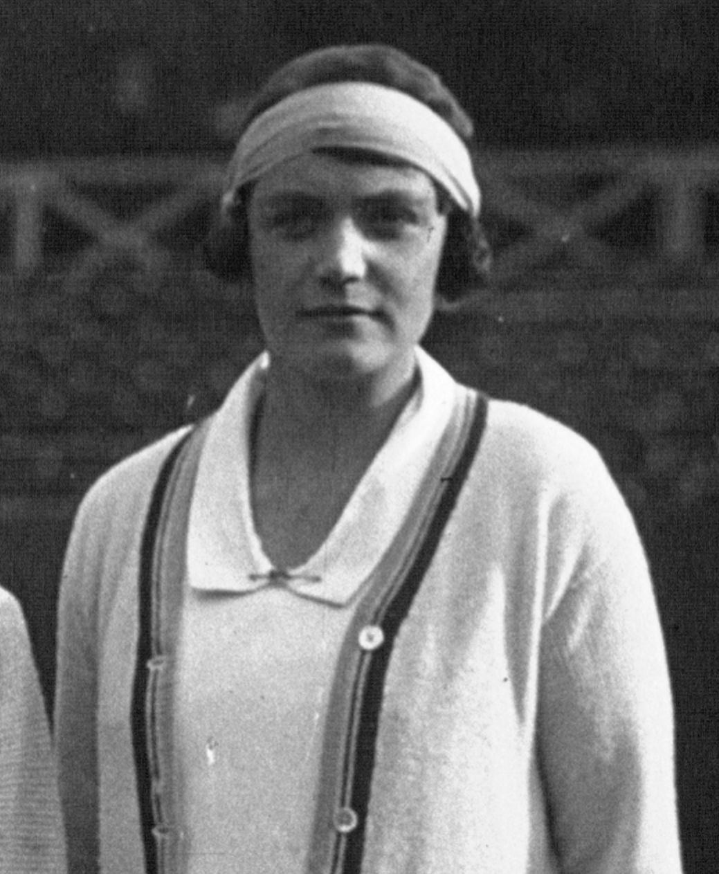 English tennis player Mary McIlquham at the Racing Club de Paris for a doubles match between England and France